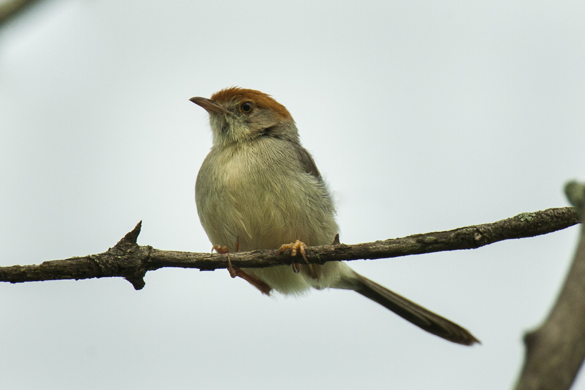 Tabora ( Long-tailed ) Cisticola - Uganda_H8O2802